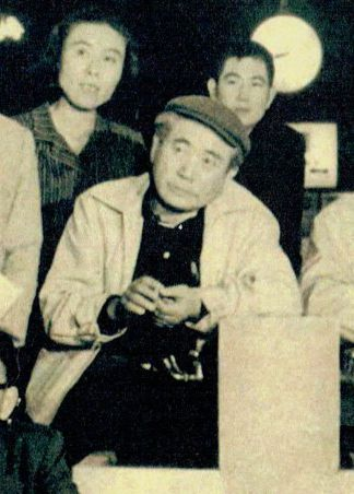 Hideo sekikawa(front)